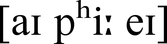 A transcription of "IPA" in the IPA